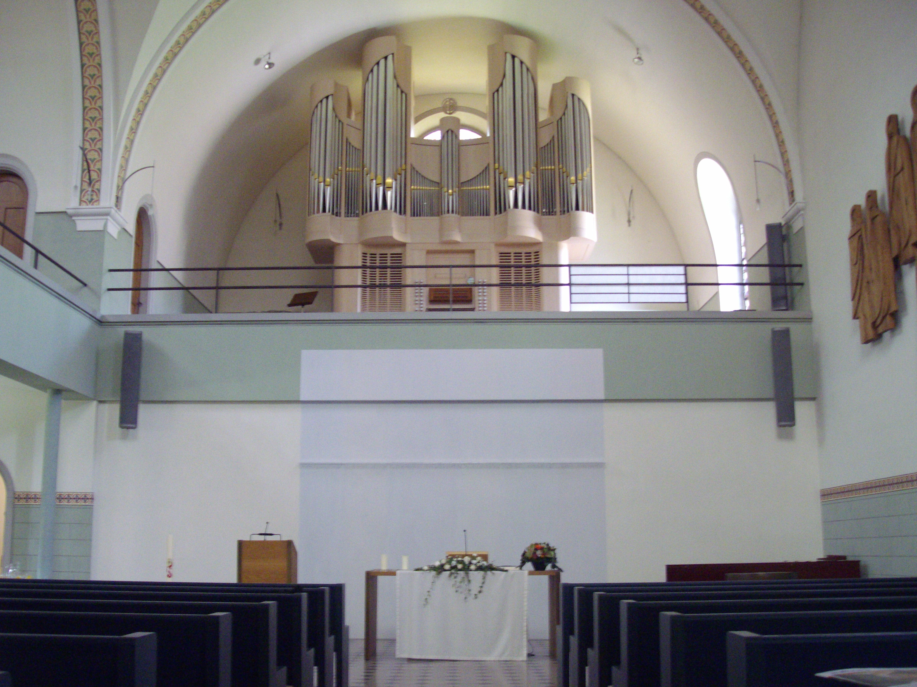 Innenraum der ref. Kirche Zug